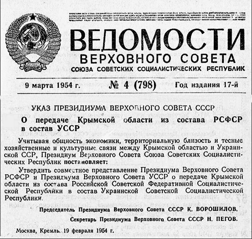 Decree of the Presidium of the Supreme Soviet of the USSR "About the transfer of the Crimean Oblast from the RSFSR to the USSR"